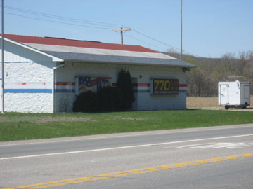 Radio station WSEO-FM, Nelsonville, Ohio